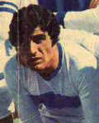 A picture of Delio Onnis cropped from a public domain image.